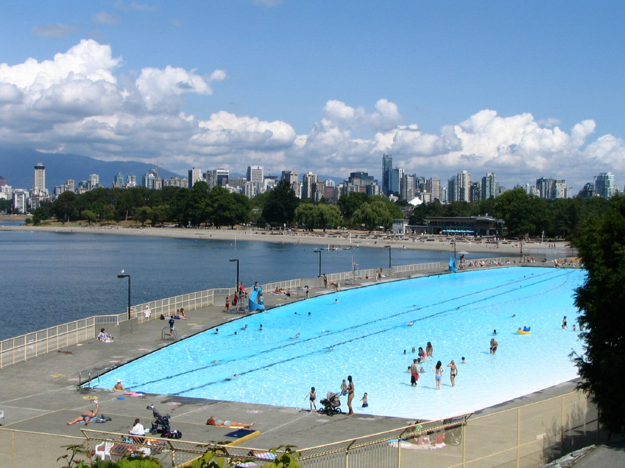 This image was created by me, Flying Penguin of Pacific Spirit Photography of Burnaby, British Columbia, Canada